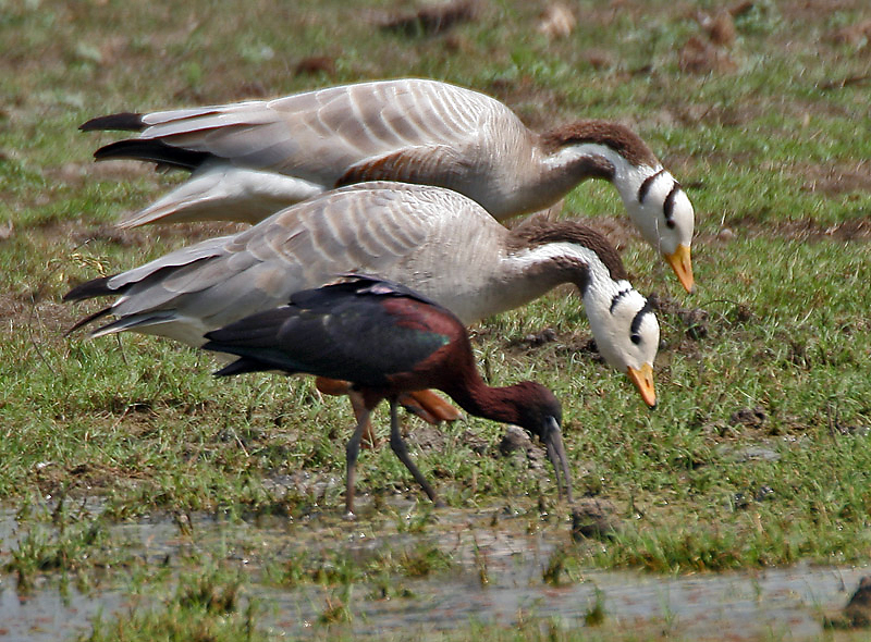 Bar-headed Goose (Anser indicus) at Keoladeo National Park, Bharatpur, Rajasthan, India.